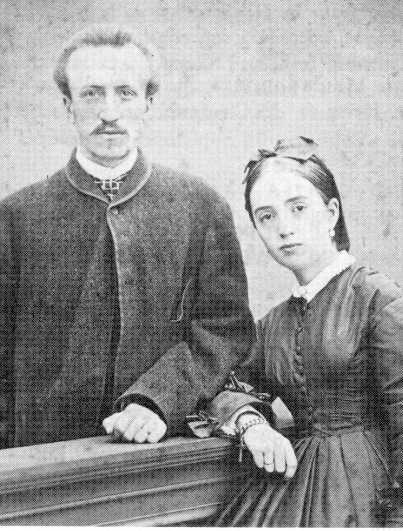 Nicolai Oldenburg & his wife M.I Bulazel